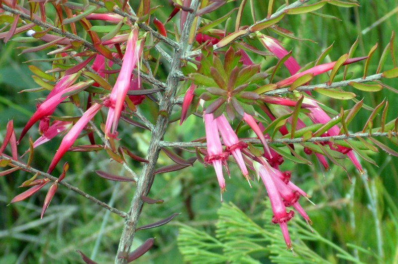 Styphelia tubiflora at Ku-ring-gai_Chase National Park